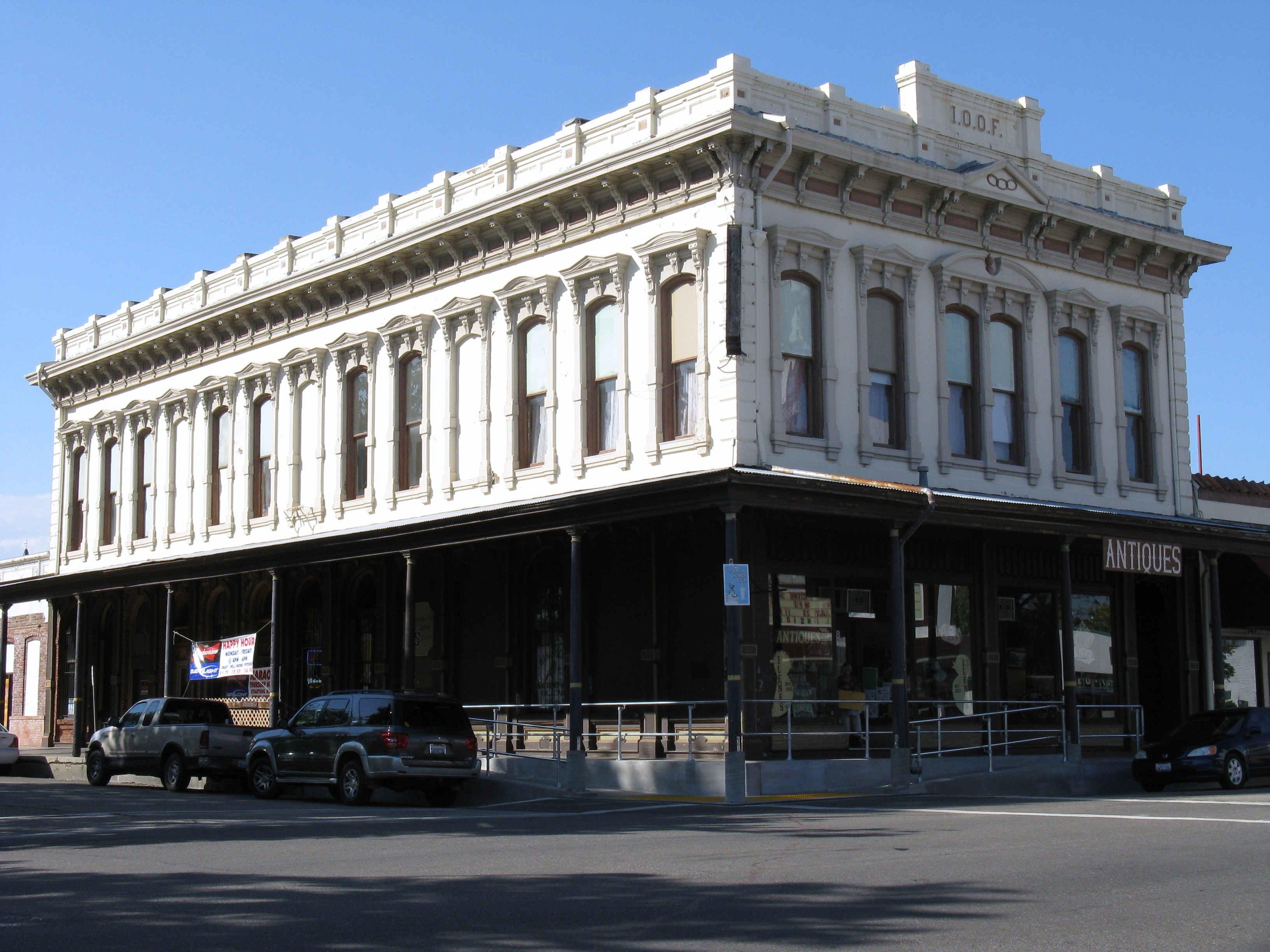 The Historic Oddfellows Hall (I.O.O.F.), in Red Bluff, California. Built in 1882, this building is listed on the National Register of Historic Places in Tehama County.